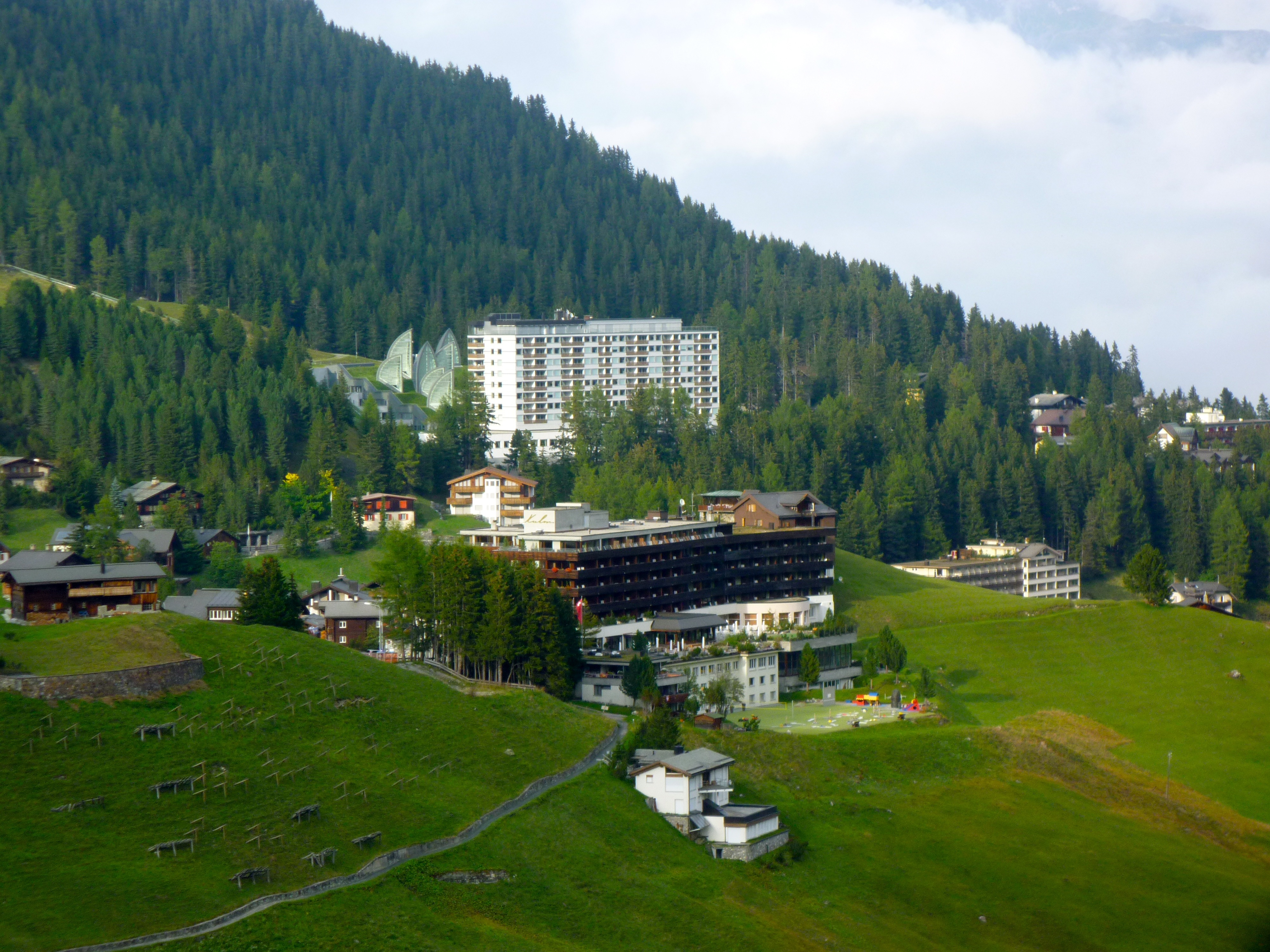 Arosa Kulm Hotel and Tschuggen Grand Hotel, Arosa, Switzerland